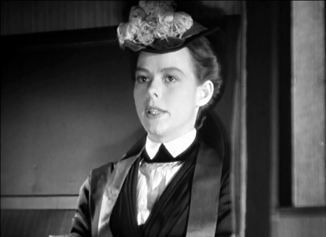 This image is a screenshot from a public domain trailer for the 1938 film, Stagecoach. Trailers for movies released before 1964 are in the Public Domain because they were never separately copyrighted.